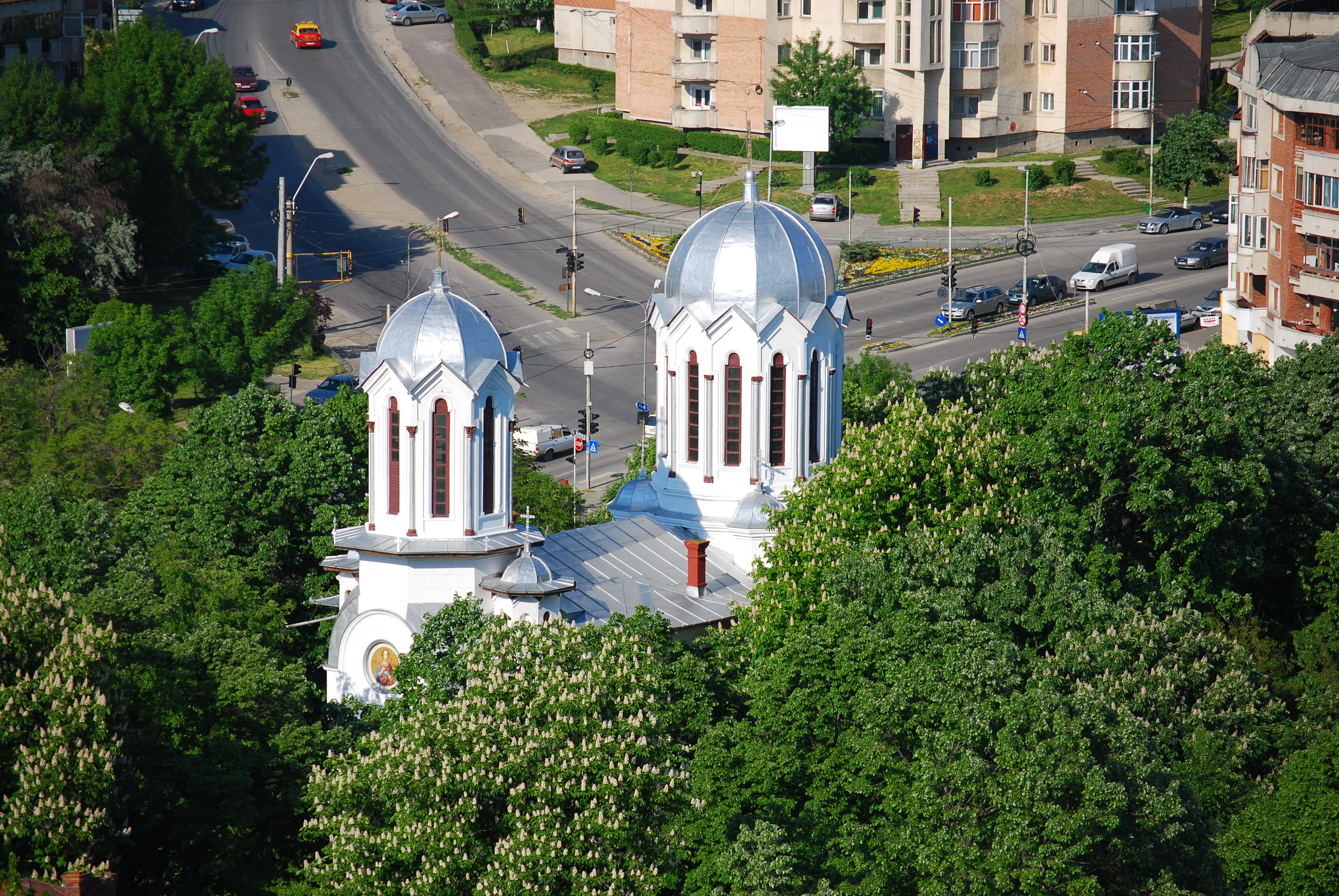 The Romanian orthodox cathedral in Slatina, RomaniaRomână: Catedrala ortodoxă din Slatina, România, văzută de pe dealul Grădişte